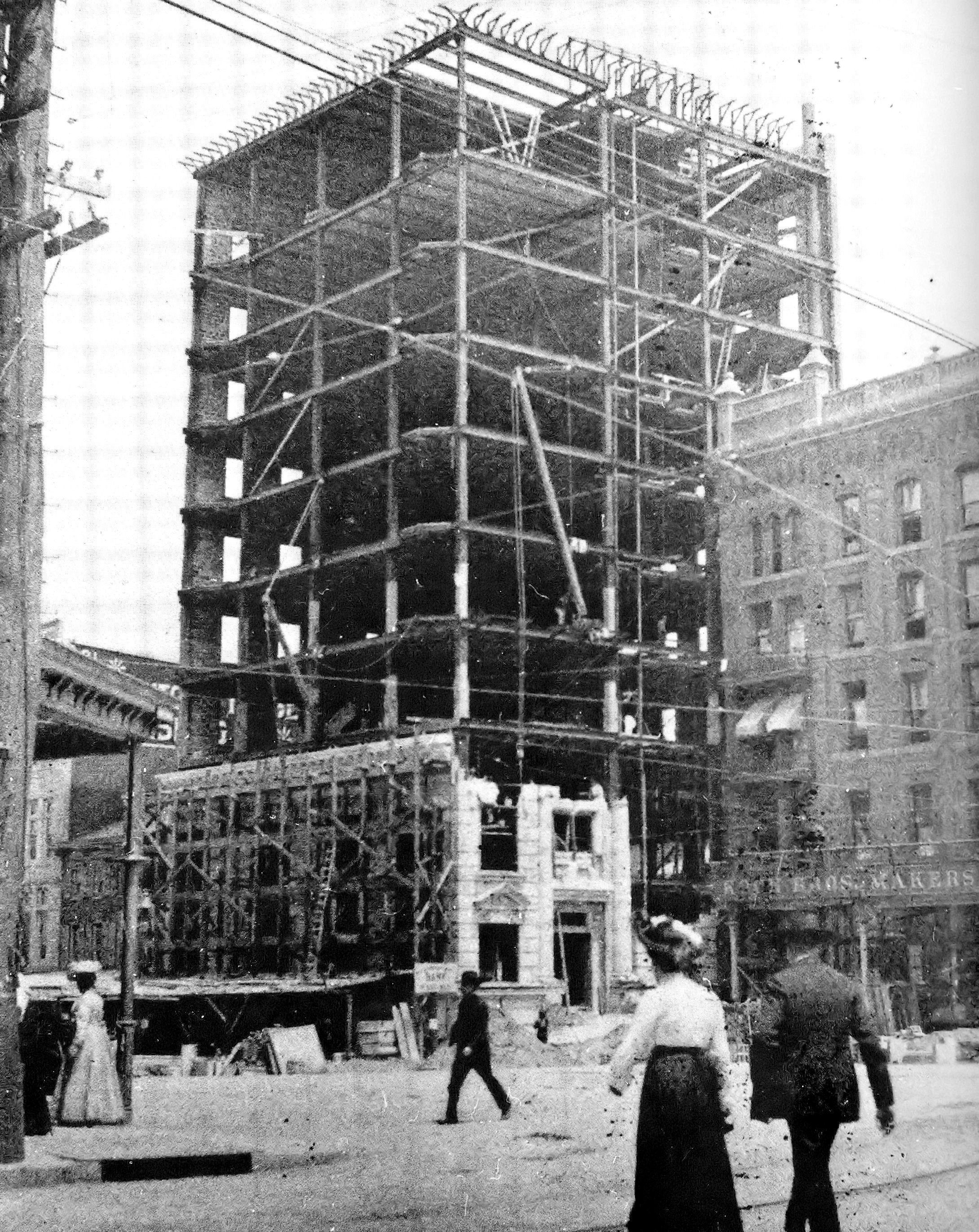 Construction of the new Allentown National Bank building in 1903. The eight story office building was one of Allentown, Pennsylvania's first multi-story modern structures